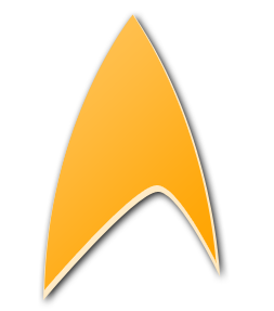 A stylized delta shield, based on the Star Trek logo.